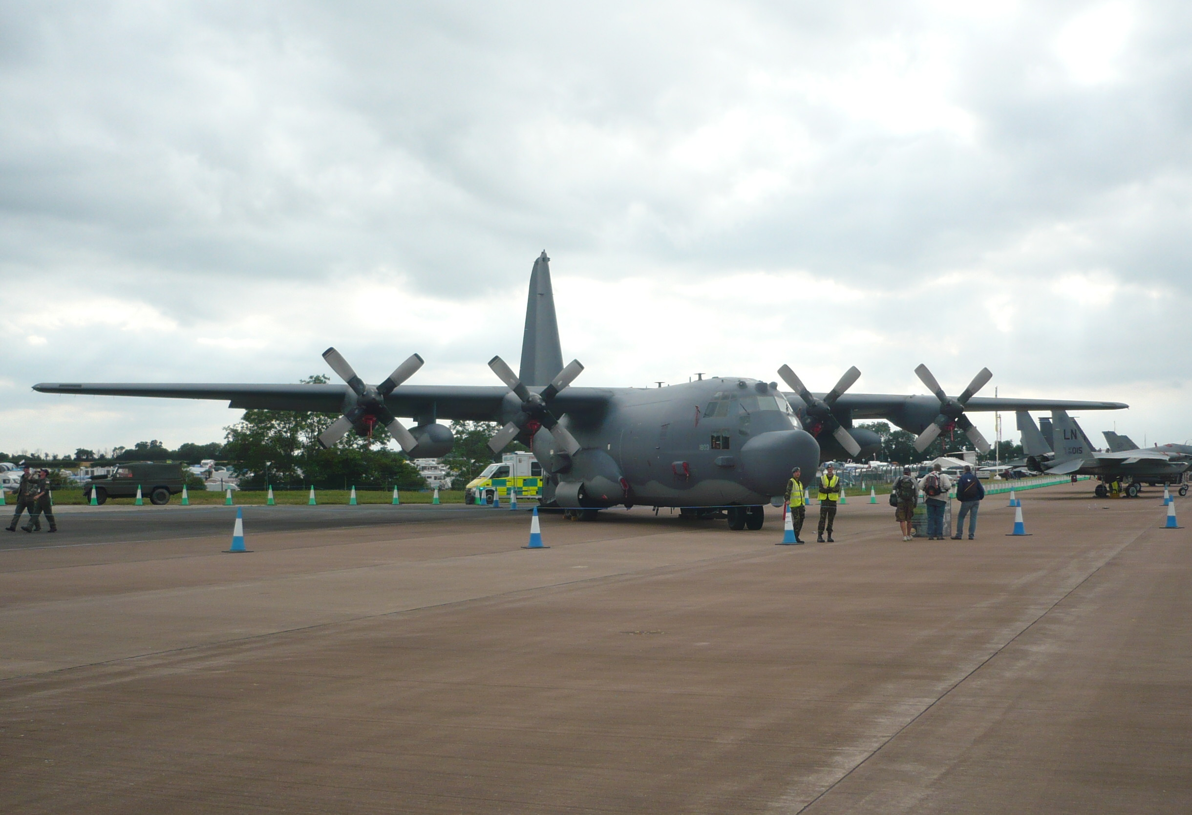 USAF Lockheed MC-130H Combat Talon II at RIAT 2010.